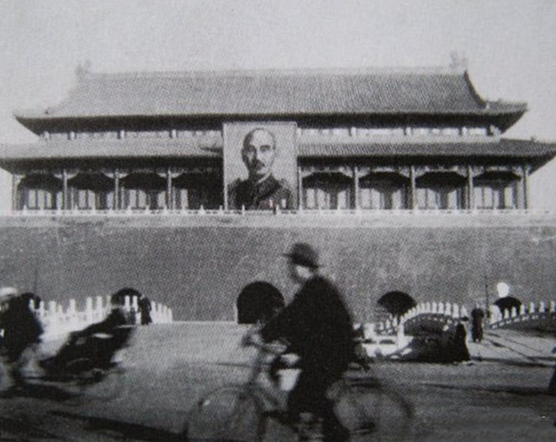 Portrait of Chiang Kai-shek hangs on the Tiananmen.